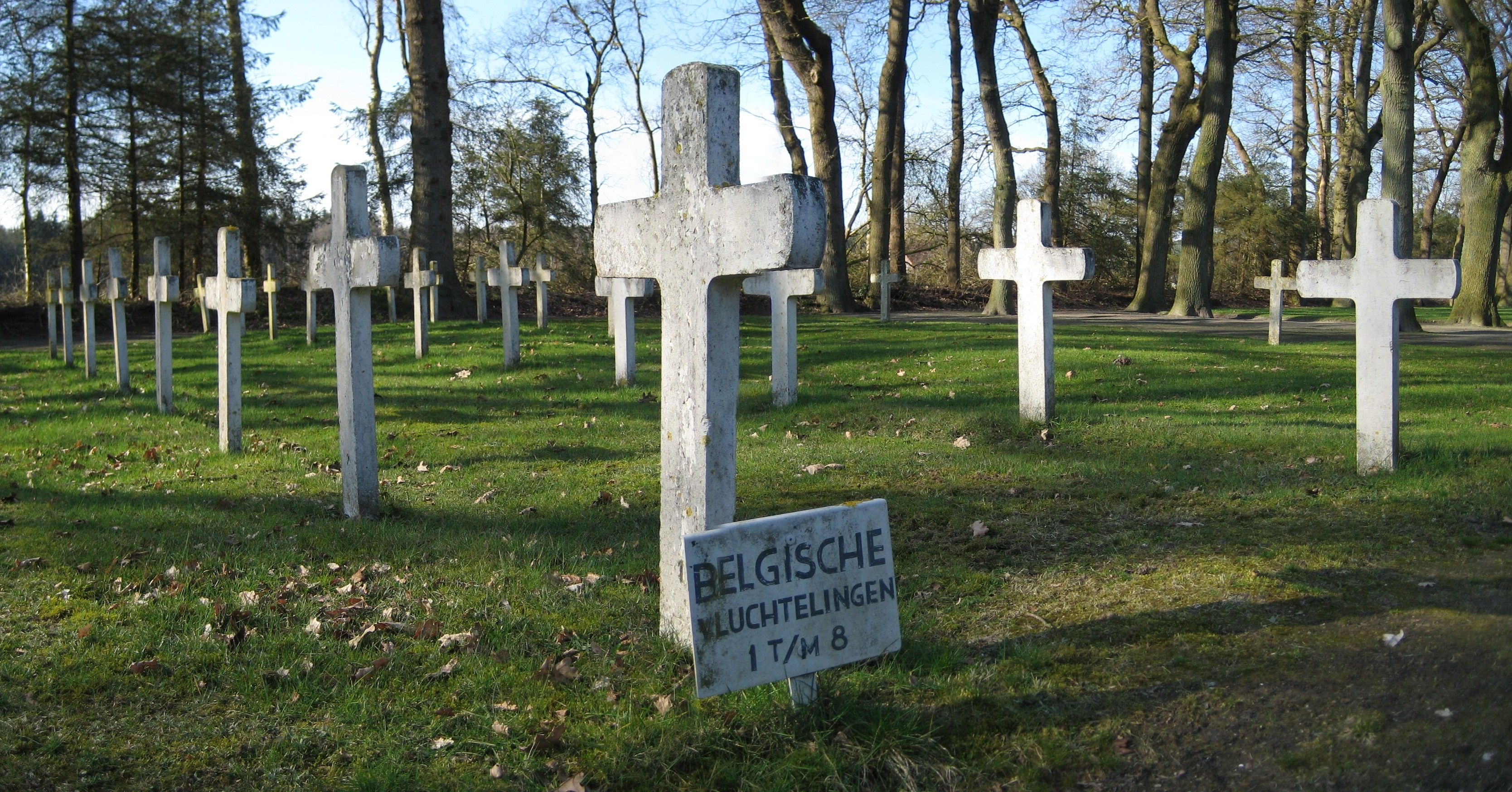 Graves of Belgian refugees from World War I on the graveyard of Veenhuizen, Noordenveld, Drenthe, NLFrysk: Grêven fan Belgyske flechtlingen út de Earste Wrâldkriich op de hôf fan Feanhuzen, Noardenfjild, Drinte